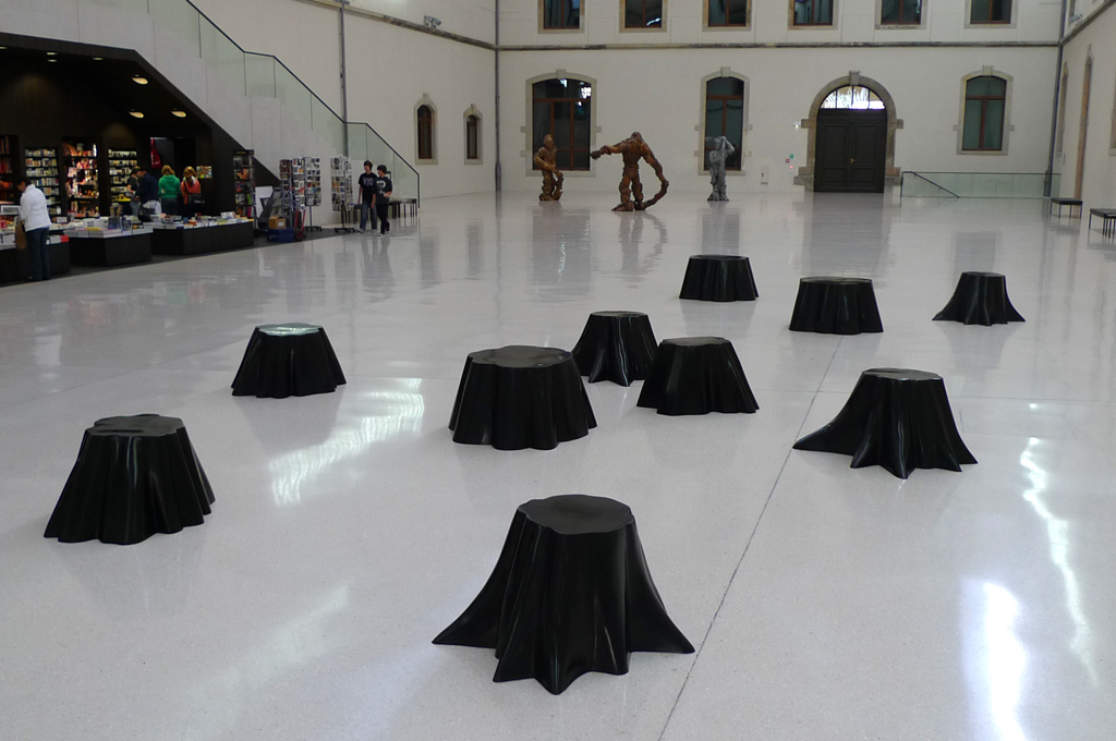 ten-part sculptural group by Eberhard Bosslet, Title: Stump stools, 2008, material: Fiberglass, H 54-60cm, field size about 15x15 meters. Here in the atrium of the Albertinum Dresden, 2011